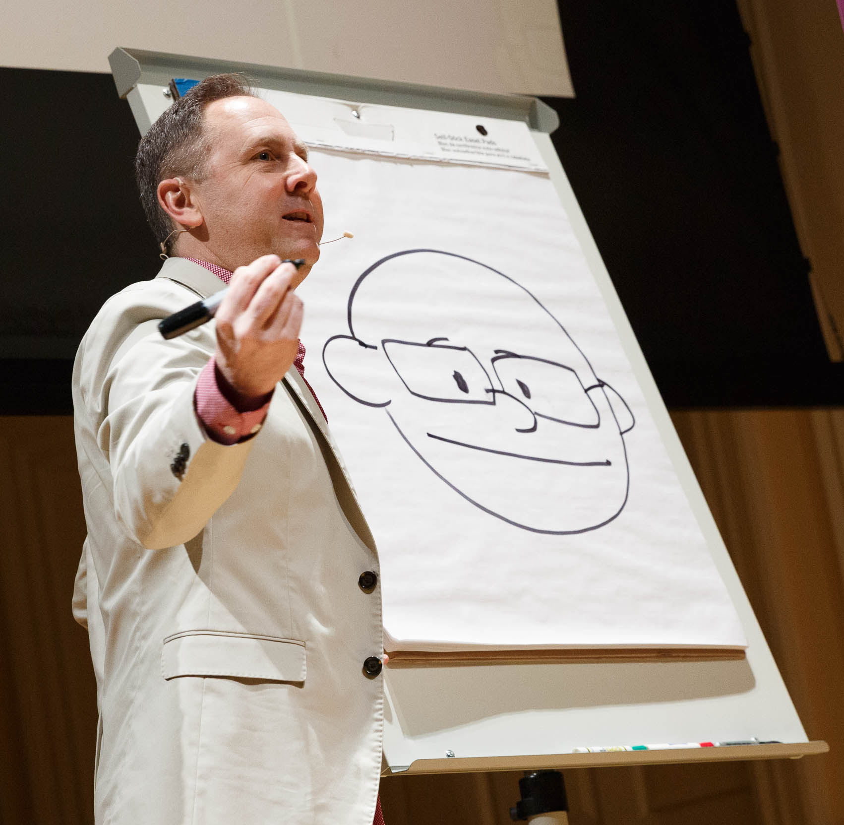 Illustrator Chris Eliopoulos draws characters frim the "Xavier Riddle" series during a "National Book Festival Presents" series event, November 8, 2019. Photo by Shawn Miller/Library of Congress. Note: Privacy and publicity rights for individuals depicted may apply.